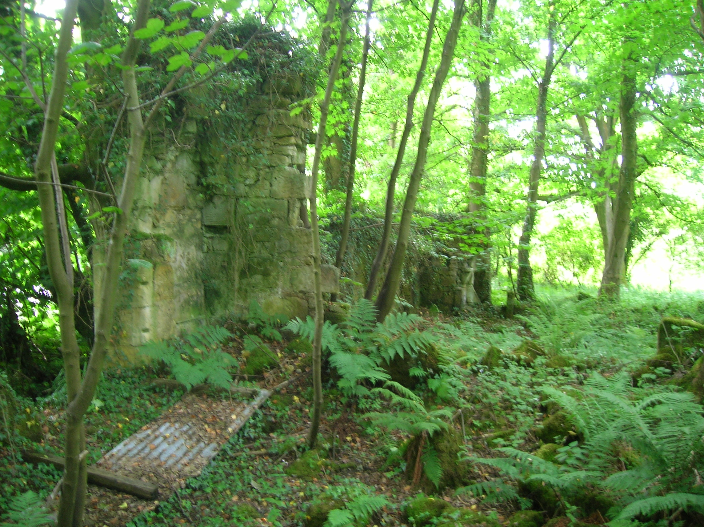 Ruins of the Lylston Row quarrying settlement, Monkredding, North Ayrshire, Scotland